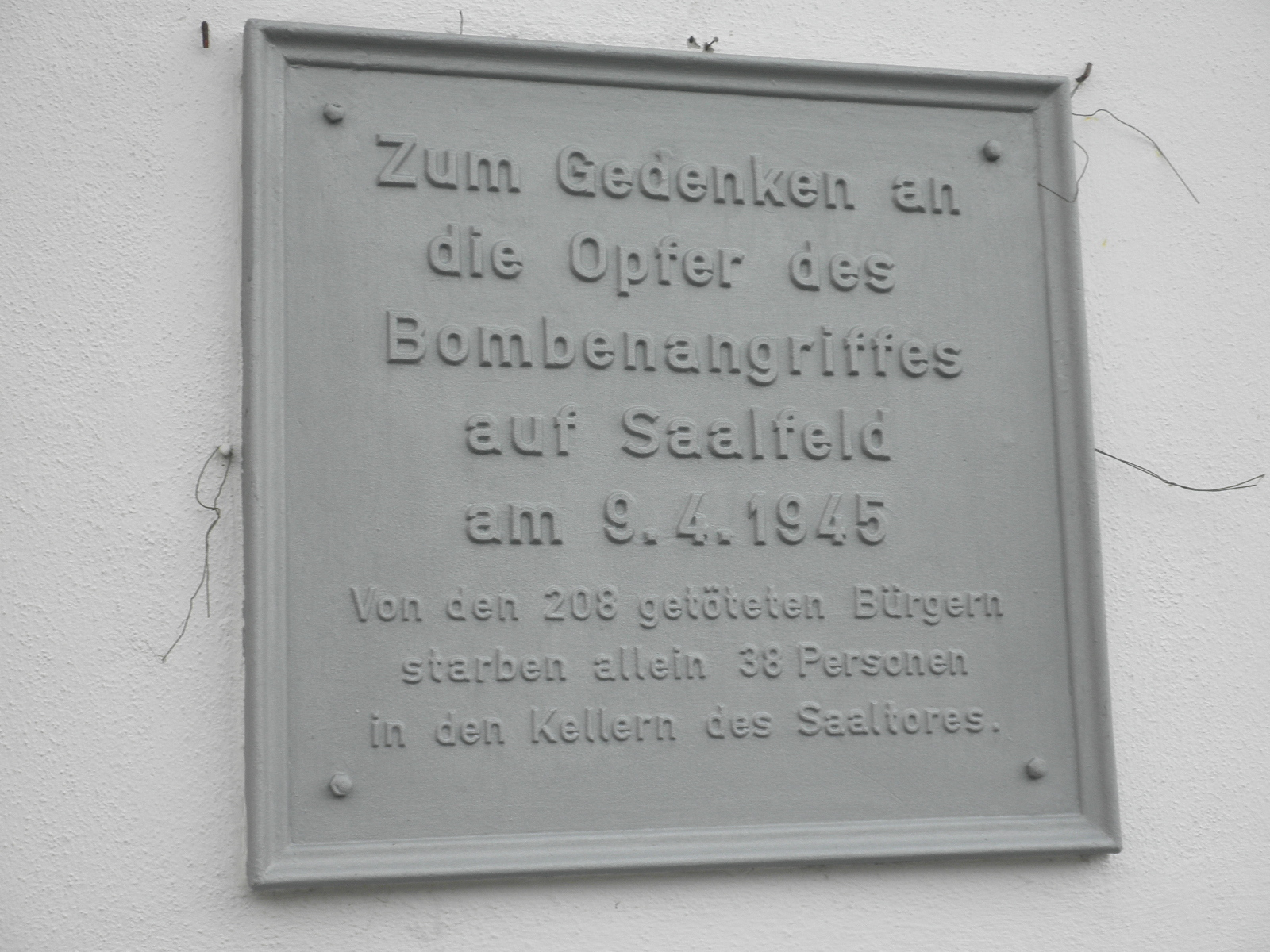 Saalfeld Saaltor Bombing Victims Table